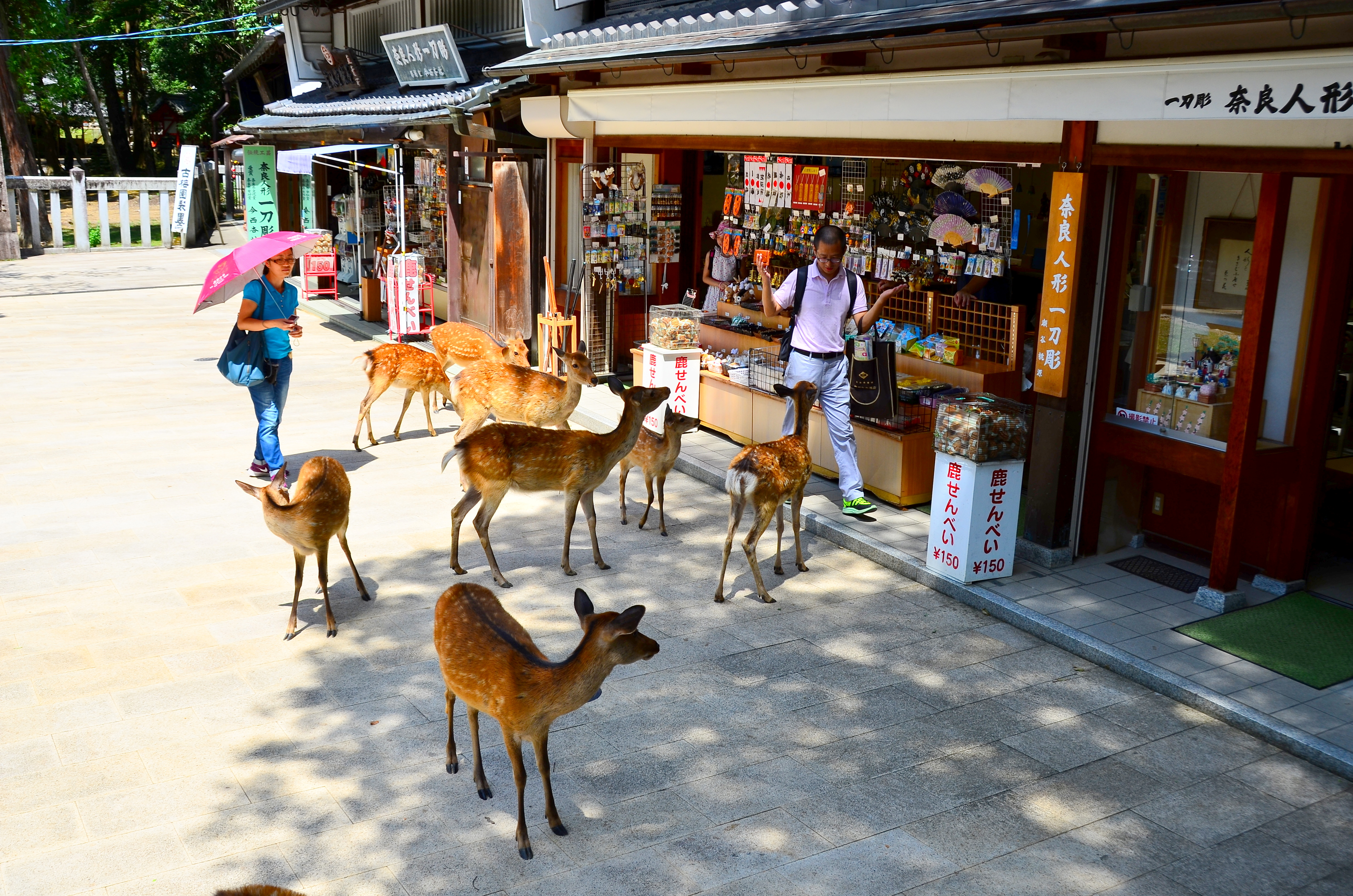 Sika deer in Nara